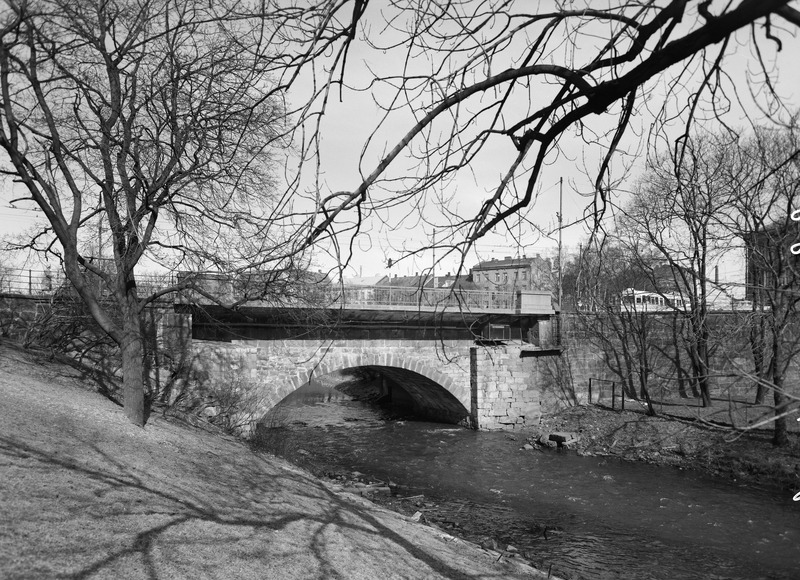 Nybrua in Oslo, Norway